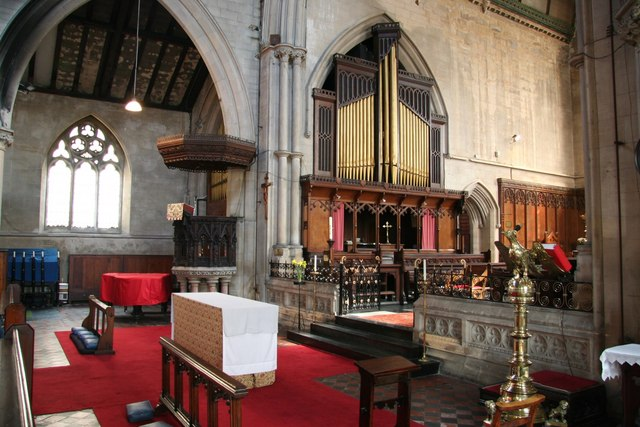 St.Swithin's church interior The absence of a chancel screen, lofty arcades and clerestorey give St.Swithin's church a great feeling of space